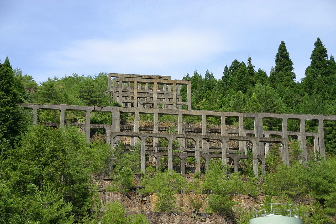 Remains of beneficiation plants of Kishu Mines in Itaya, Kiwa-cho, Kumano city, Mie prefecture, Japan.